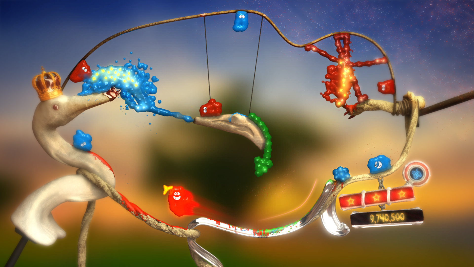 Screenshot of the Xbox Live Arcade game The Splatters